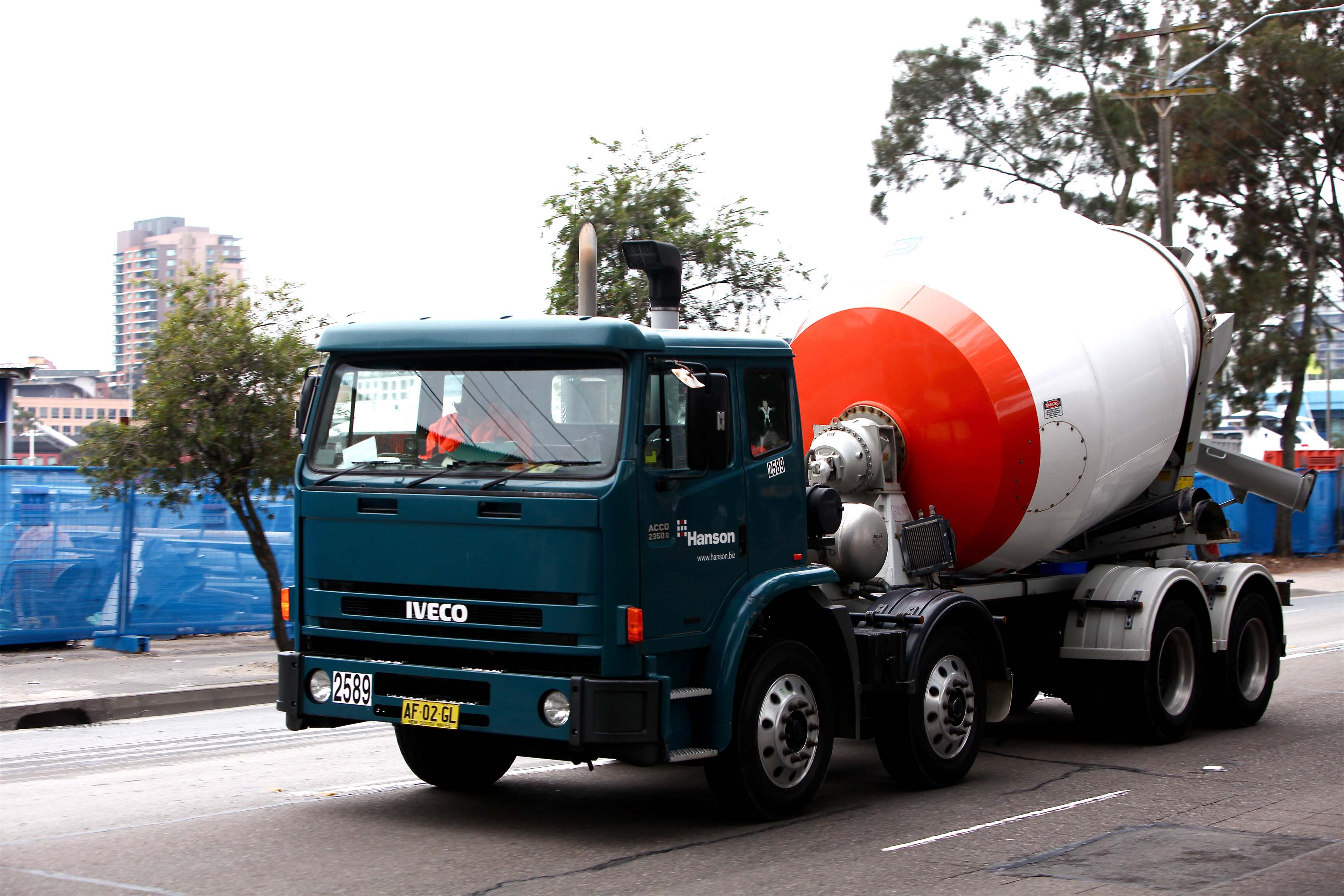 Hanson Concrete Iveco Acco